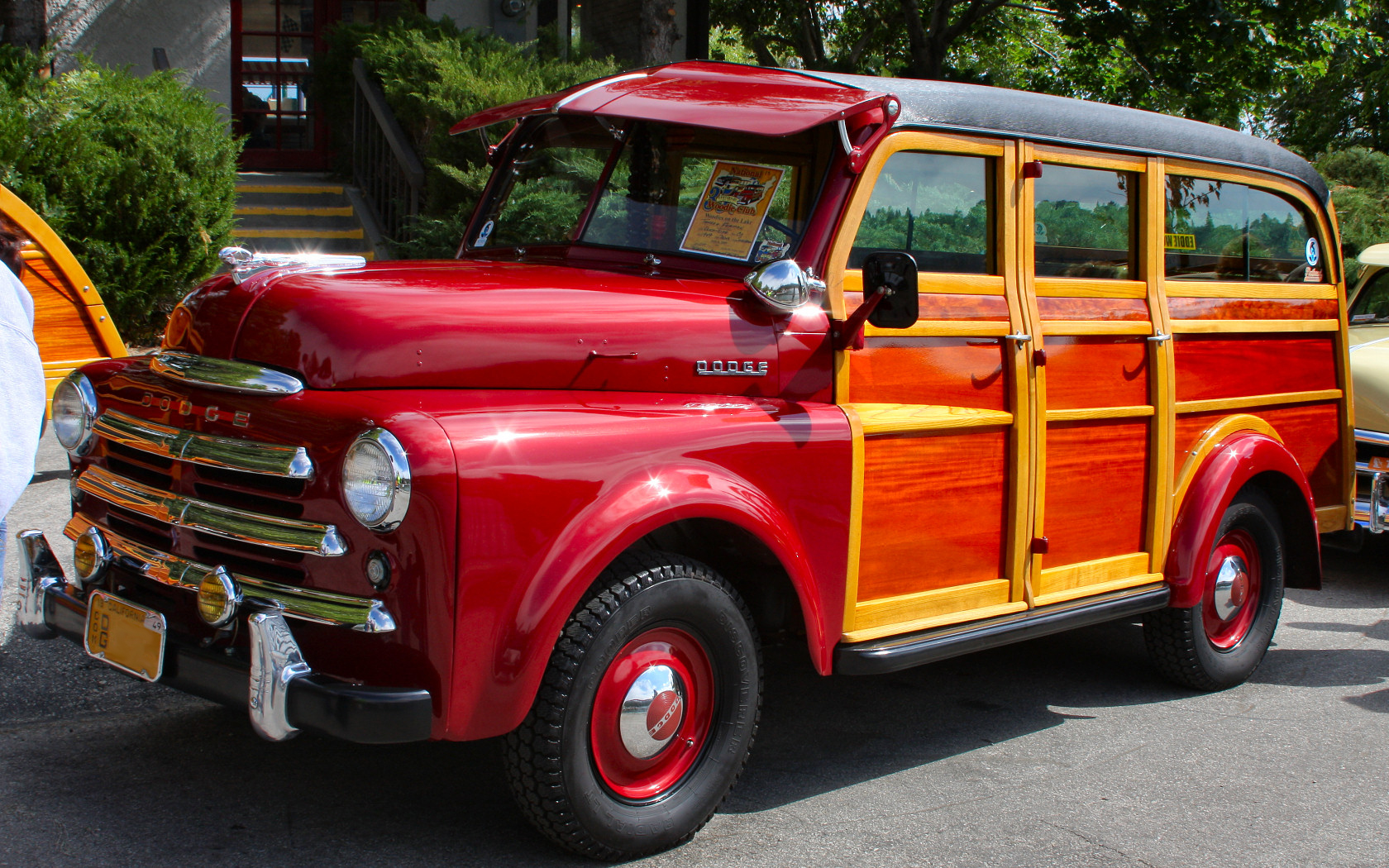 1949 Dodge Suburban (B-series) at Lake Arrowhead, CA: Woodies On The Lake. May 6, 2009